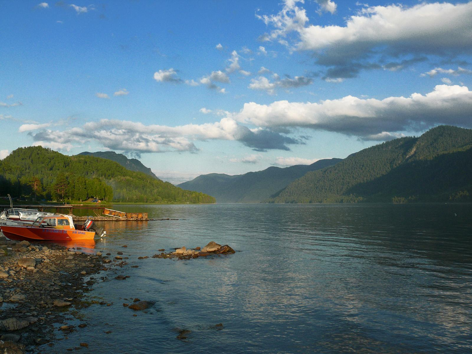 Lake Teletskoye, north side.